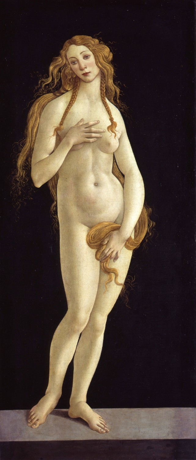 Italian Renaissance paintings in the Gemäldegalerie, Berlin